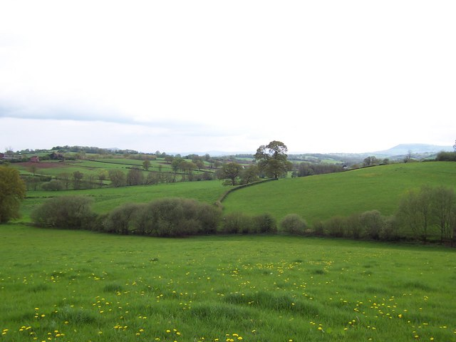 Offa's Dyke Path near Hendre Farm. The trail enters fields just after passing the farm, if one is going south to north. The Monmouthshire countryside in wonderful, rolling hills and green fields with thick hedgerows. There is no evidence of the path on the ground, but the route passes down the field to pass the prominent tree in the centre of the photograph.